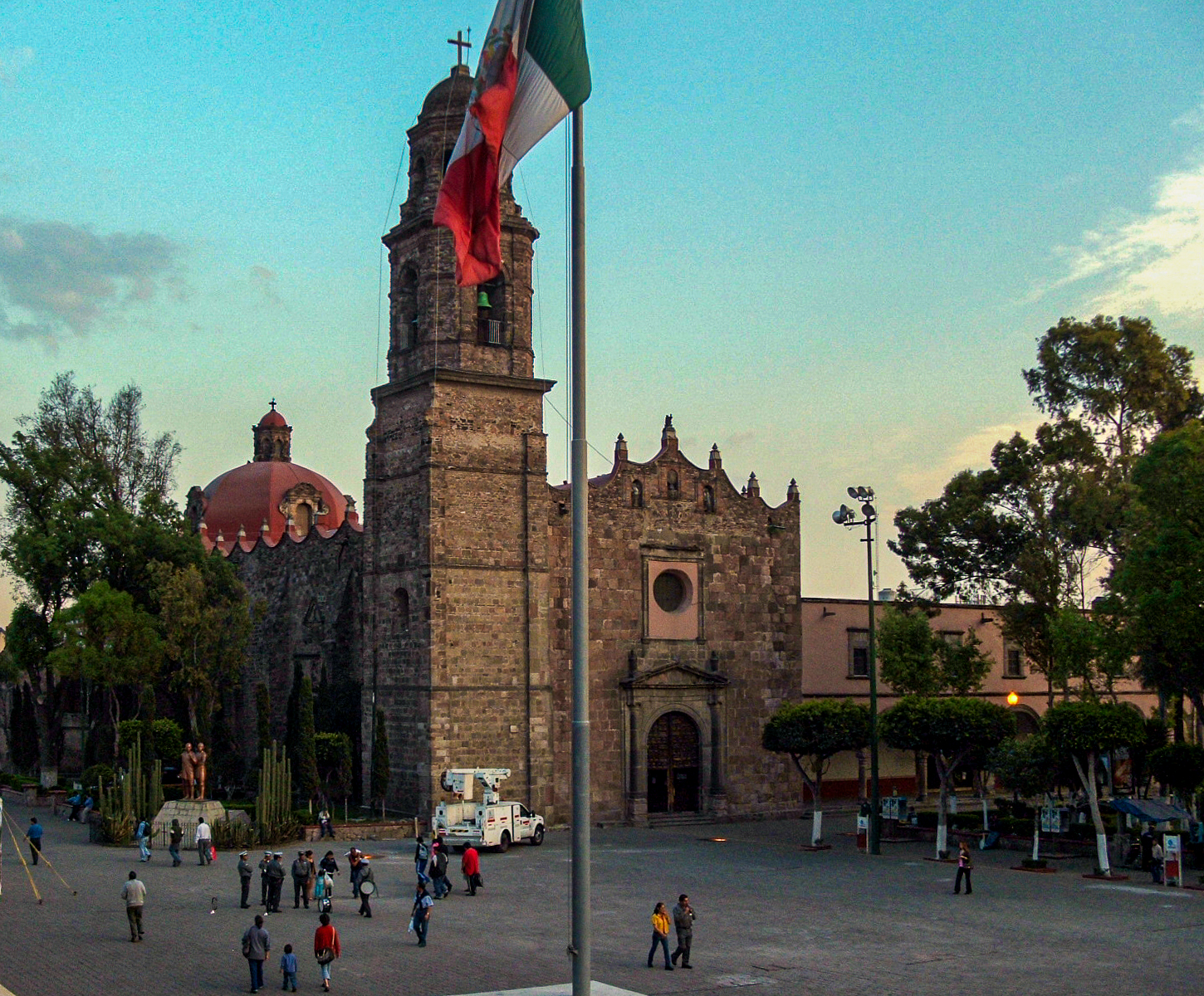 Sunset in Gustavo Baz Place and Corpus Christi Church in Tlalnepantla, Mexico.